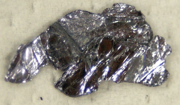 Molybdenum disulfide (MoS2)